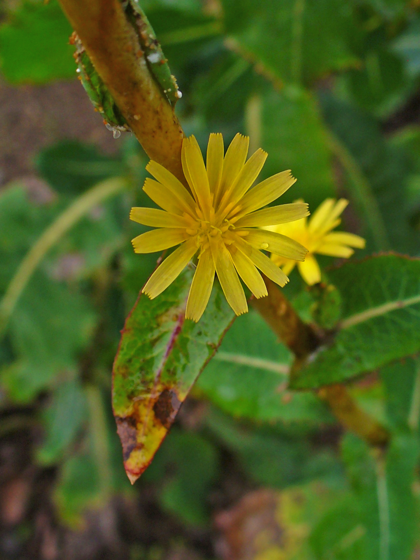 Lactuca virosa, Asteraceae, Wild Lettuce, Bitter lettuce, Laitue vireuse, Opium Lettuce, Poisonous Lettuce, Rakutu-Karyumu-So, inflorescence; Botanical Garden KIT, Karlsruhe, Germany. The fresh, whole plant collected at bloom is used in homeopathy as remedy: Lactuca (Lact.)